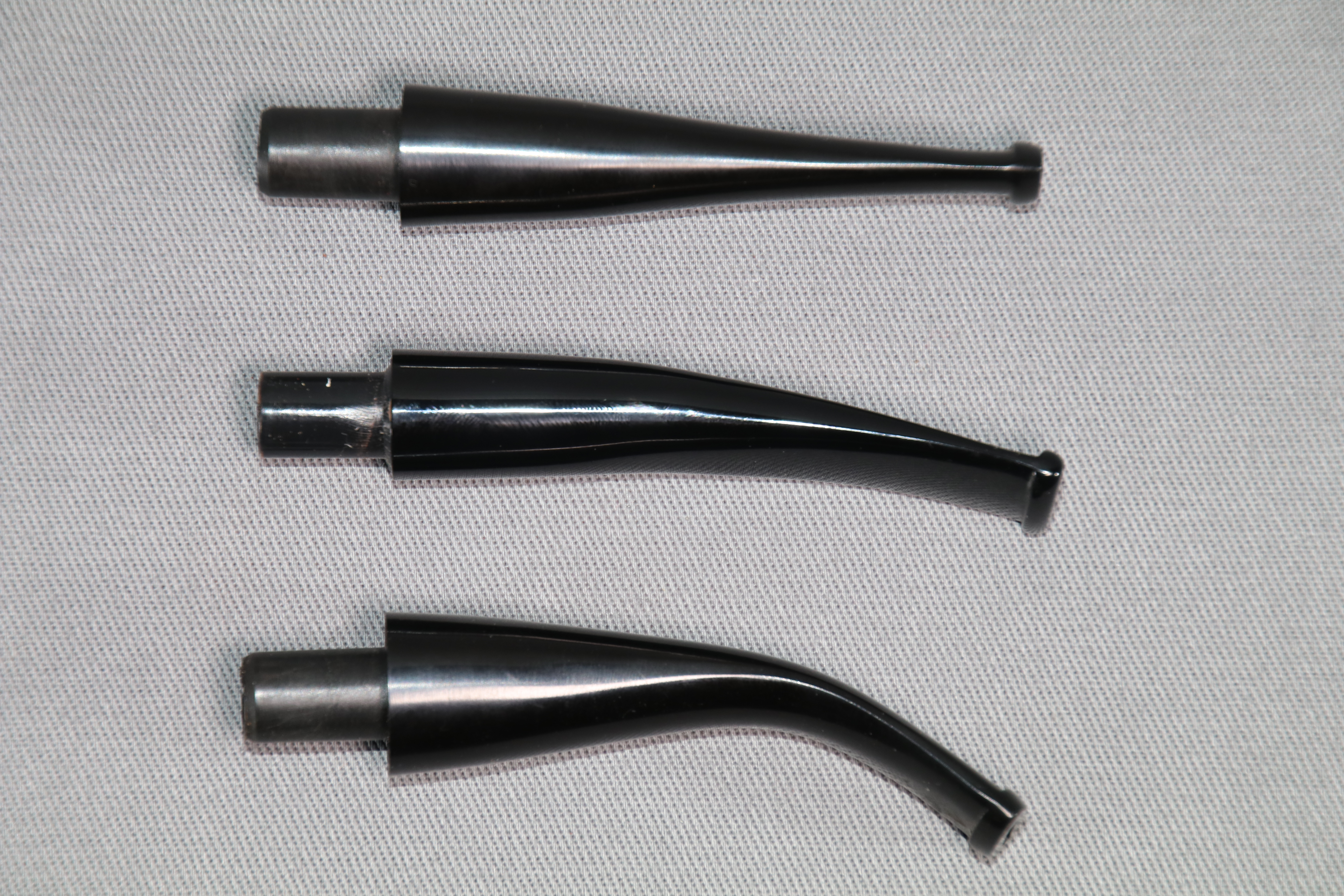 Three different smoking pipe stem curvatures. Straight, slightly bent and bent.